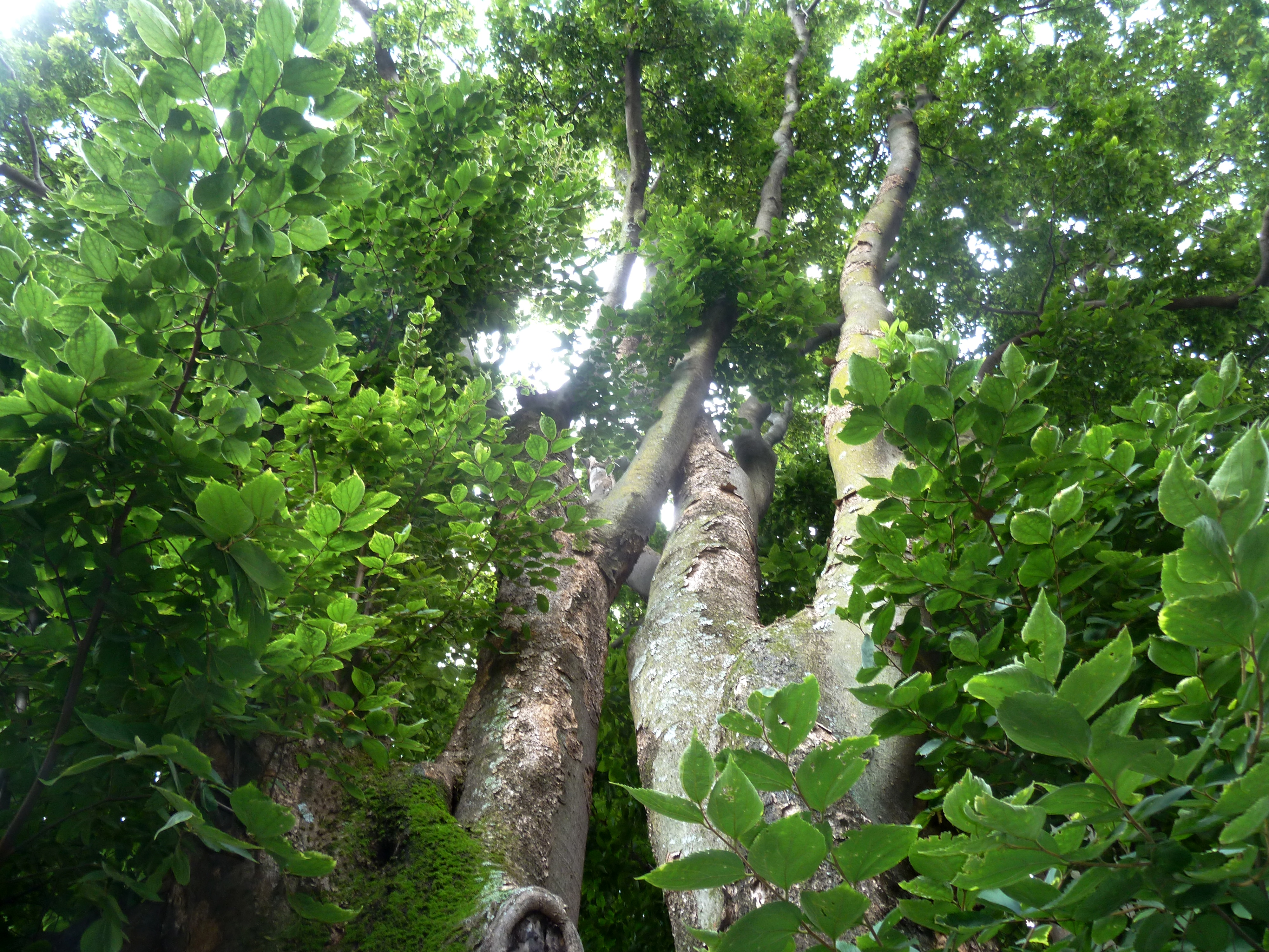 Habit of a White stinkwood in the Manie van der Schijff Botanical Garden, University of Pretoria